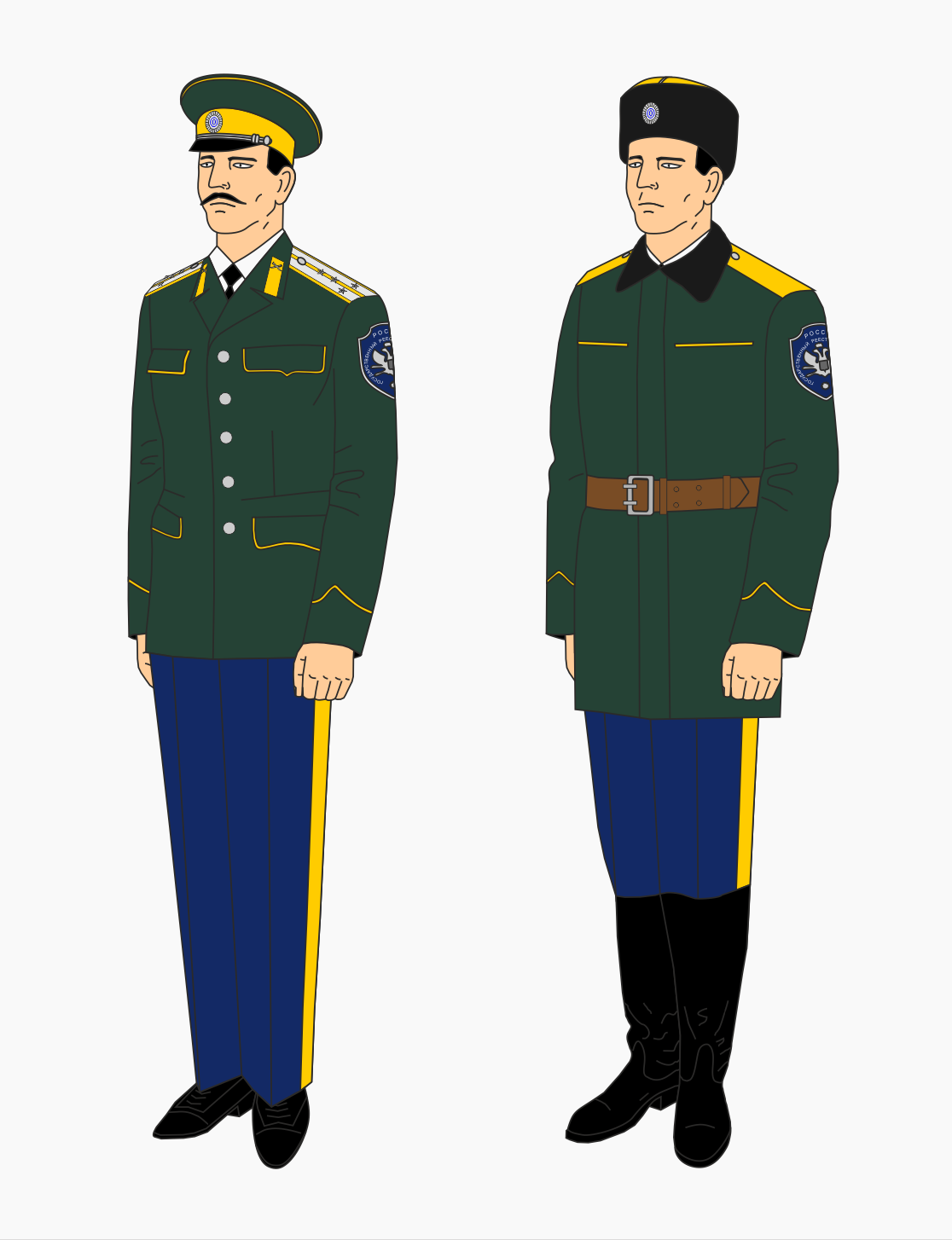 Забайкальское казачье войско (повседневная форма казаков)